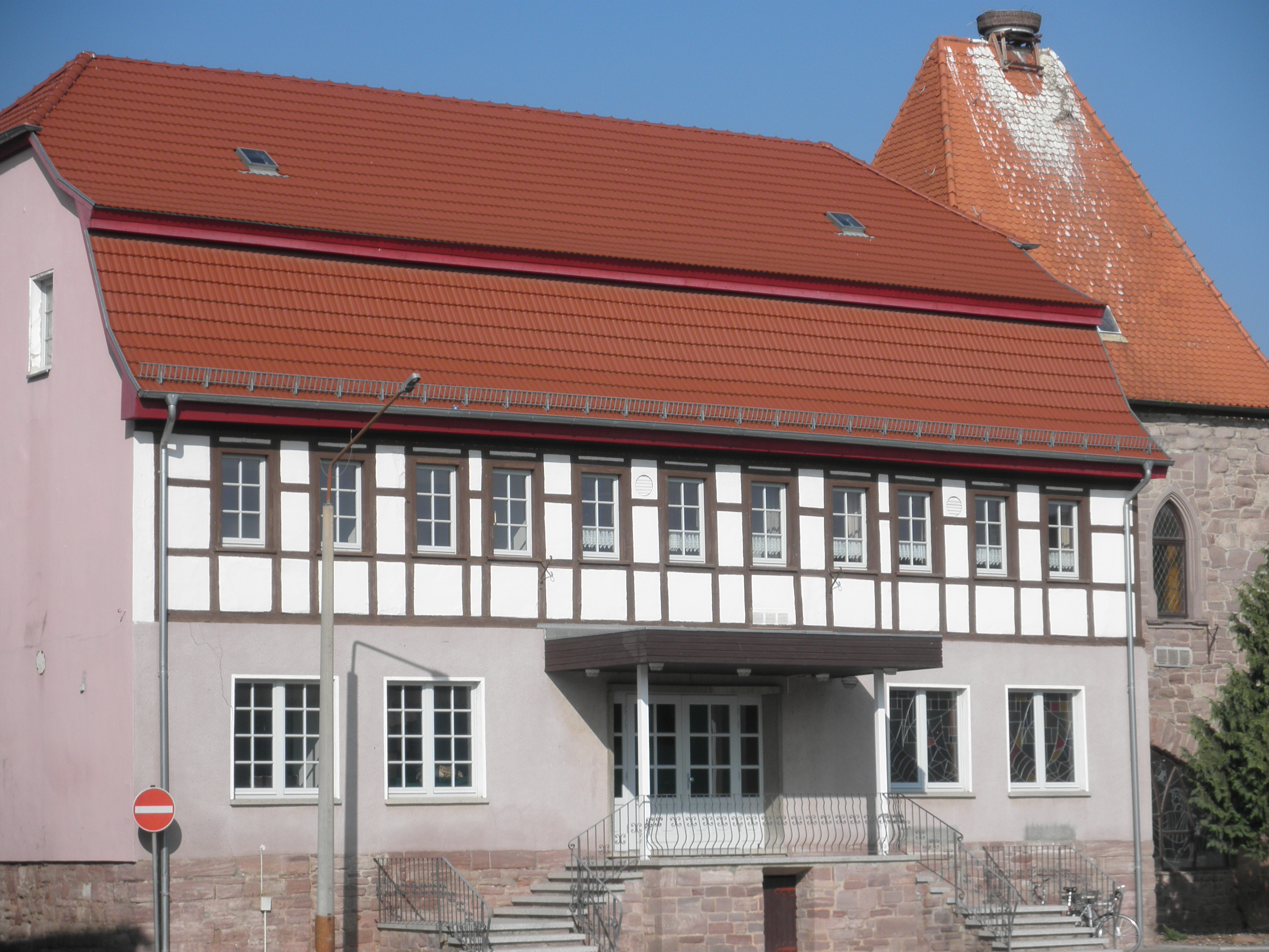 Halftimbered House in Ringleben (bei Artern) in Thuringia